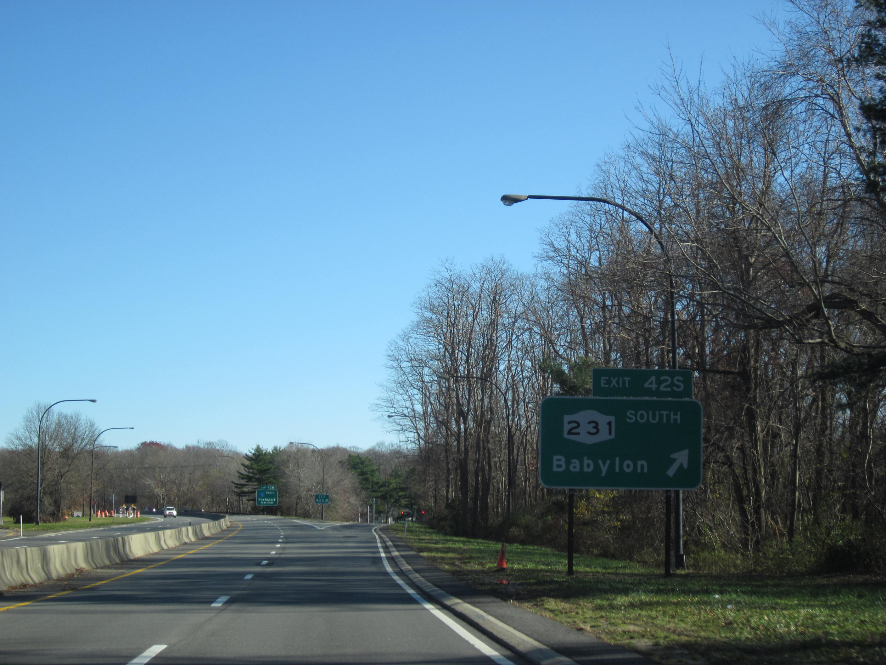 The Northern State Parkway eastbound at Exit 42S, NY 231, in Huntington.